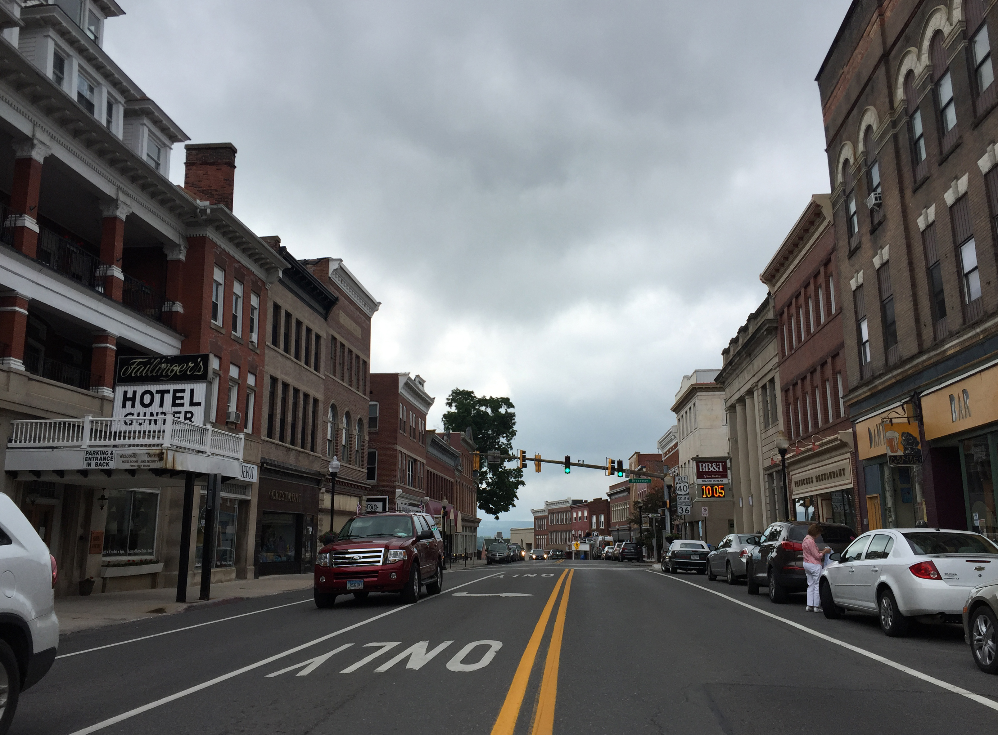 View east along U.S. Route 40 Alternate and south along Maryland State Route 36 (Main Street) between Water Street and Broadway in Frostburg, Allegany County, Maryland